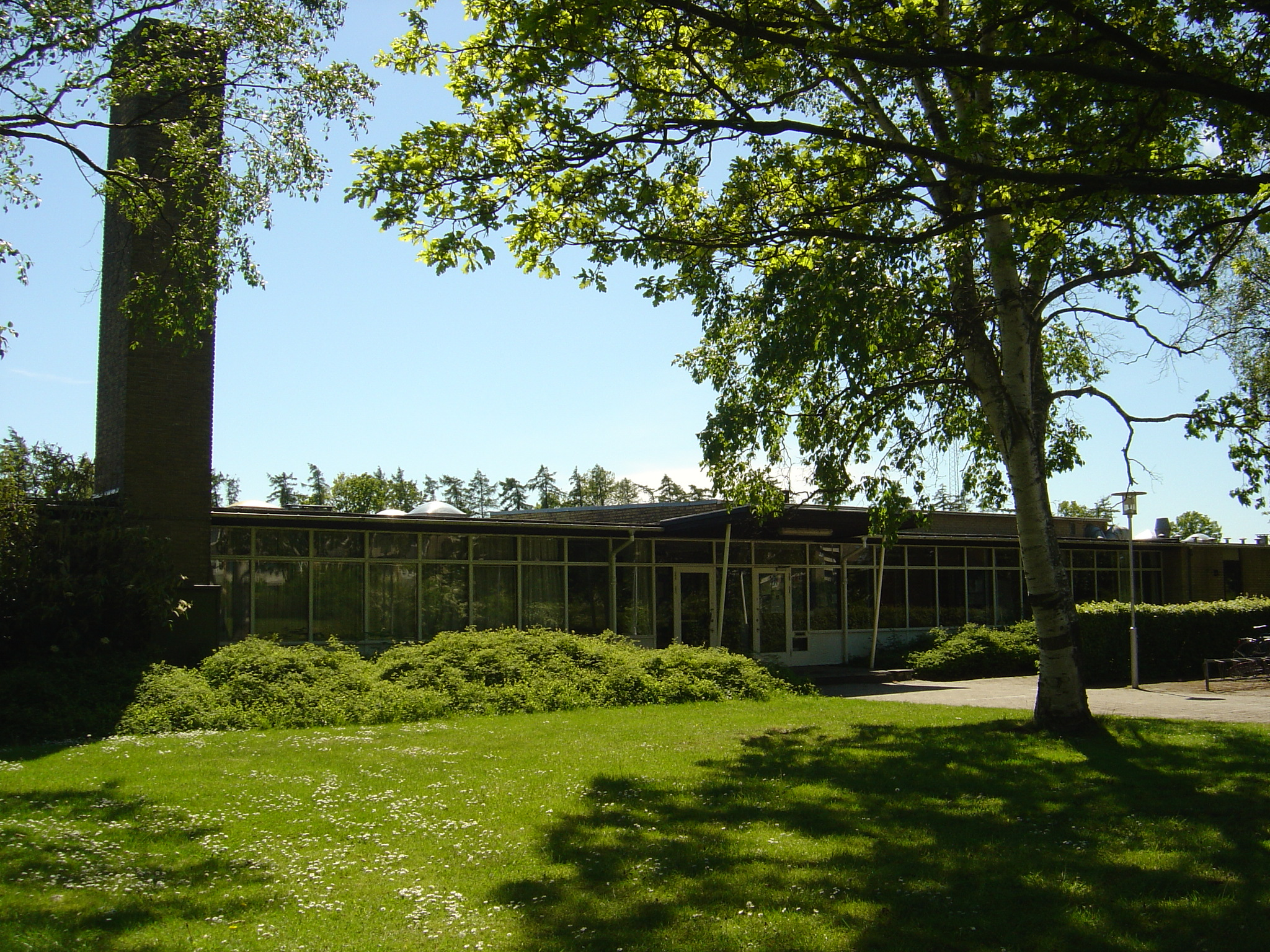 Tårnby Boldklub - the club house of a Danish association football club in Tårnby, Amager, Copenhagen. Seen from the northeast side, near Tårnby Stadium.